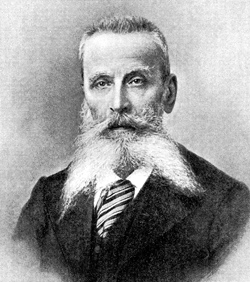 Ernest Gibert, Russian architect